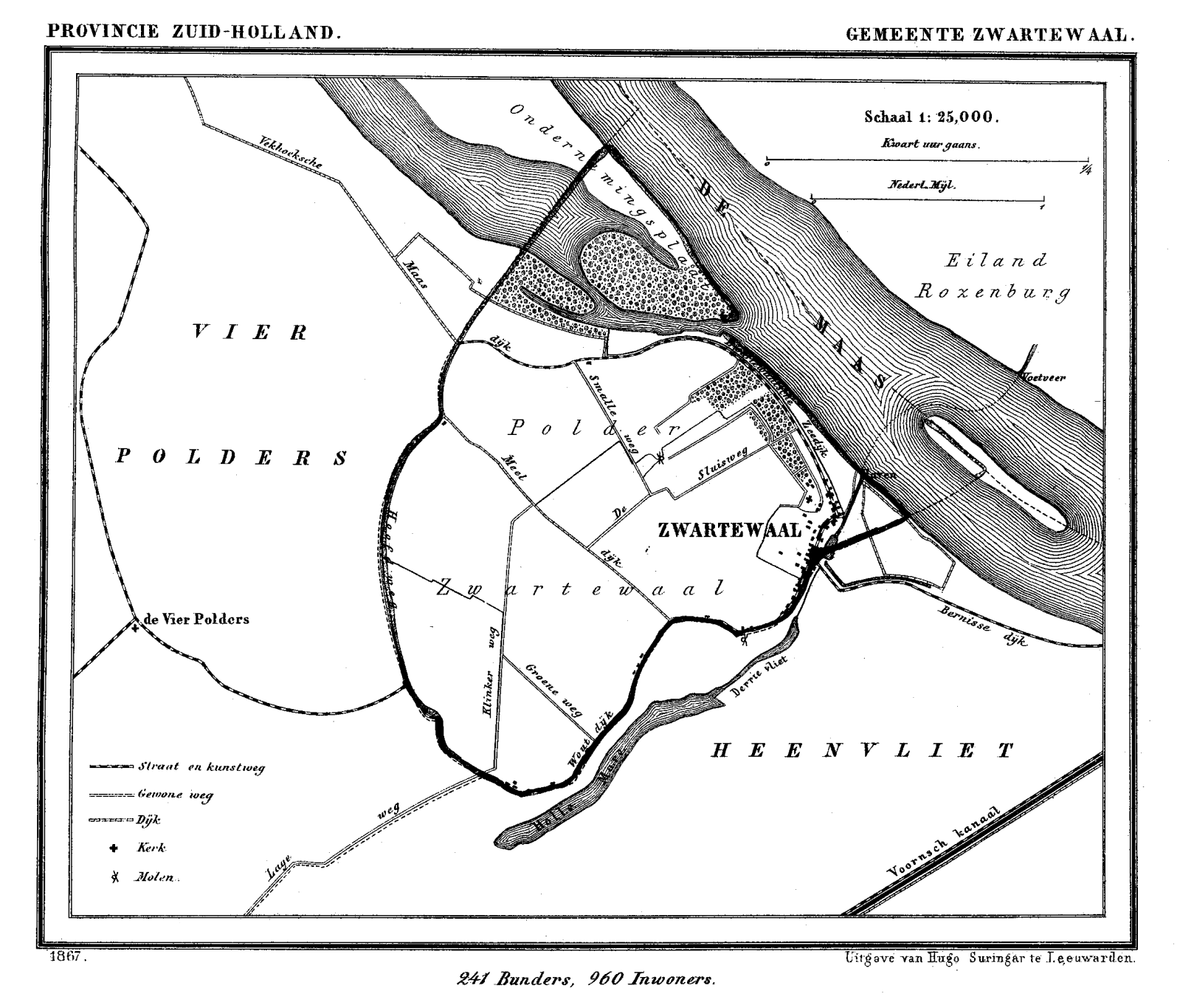 Historic map of Zwartewaal (now part of municipality Brielle), South Holland, the Netherlands